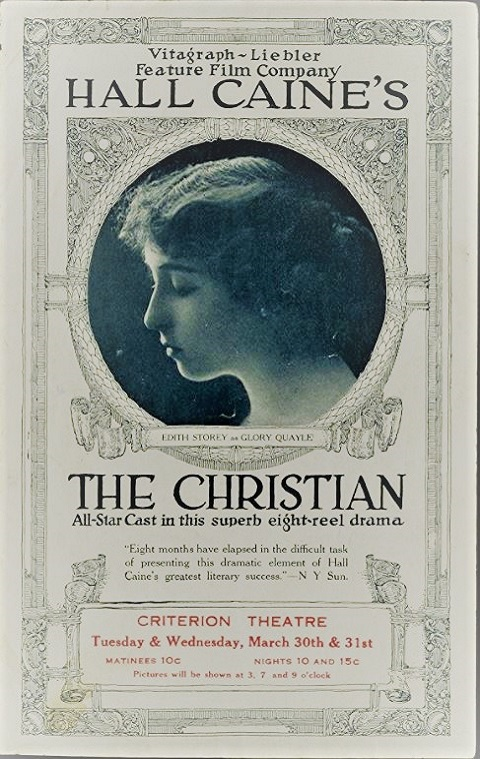 Criterion Theatre Cinema Programme cover featuring Edith Storey as Glory Quayle in Vitagraph-Liebler's 1914 adaptation of Hall Caine's novel 'The Christian'.